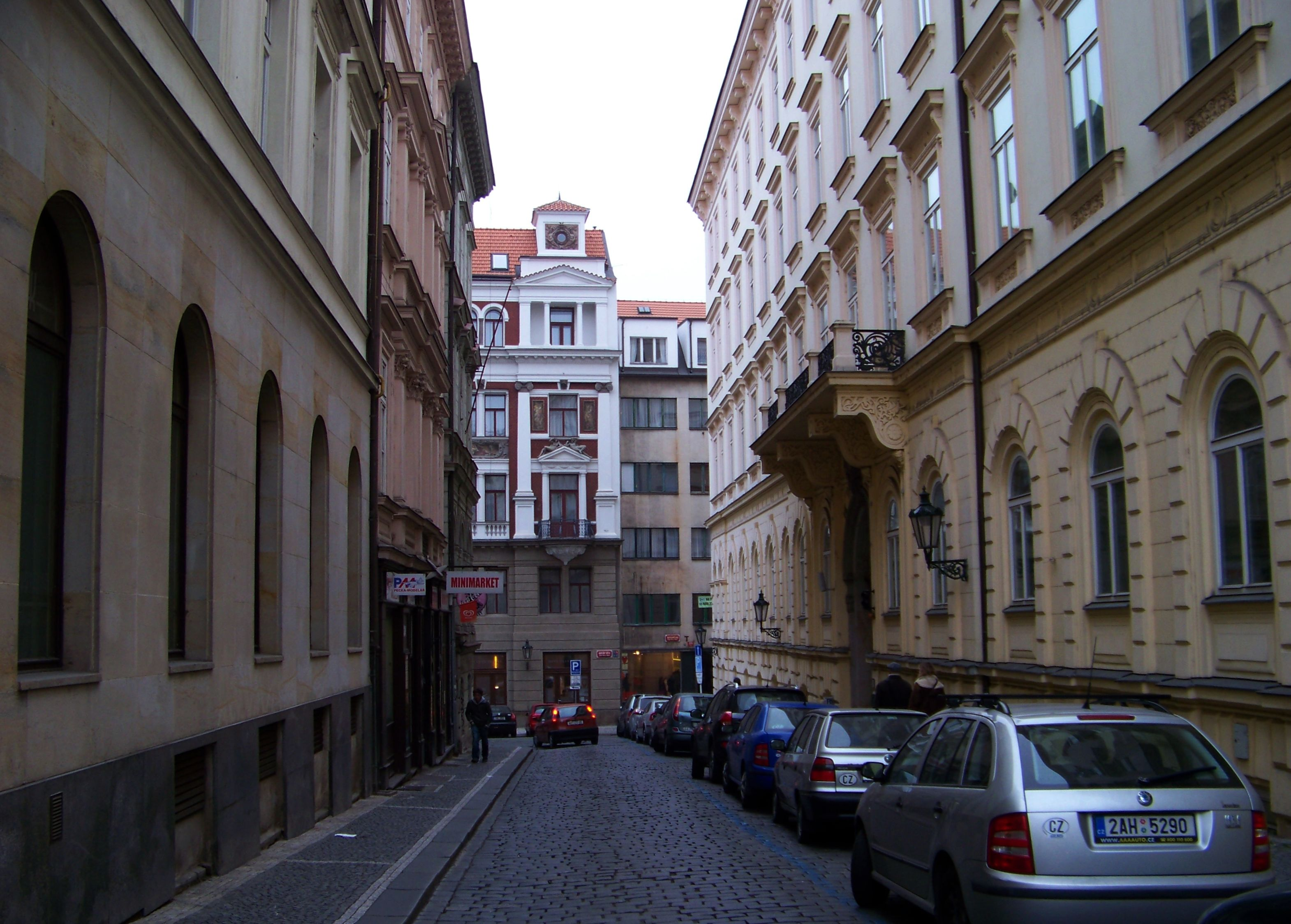 Prague-Old Town, the Czech Republic. Karoliny Světlé street. - OpenStreetMap(Info)